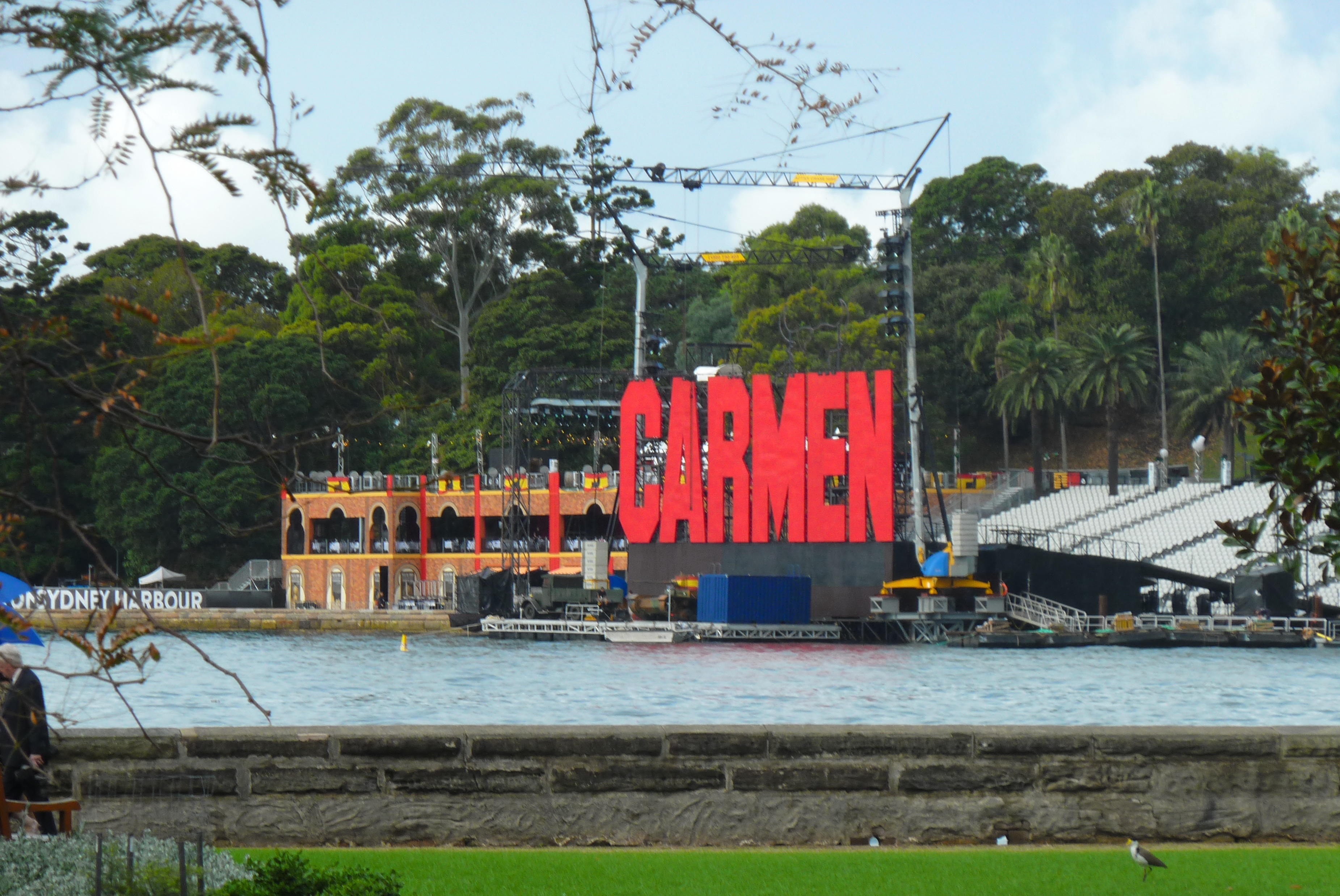 'I've looked at CARMEN from both sides now...but still somehow...!!!'